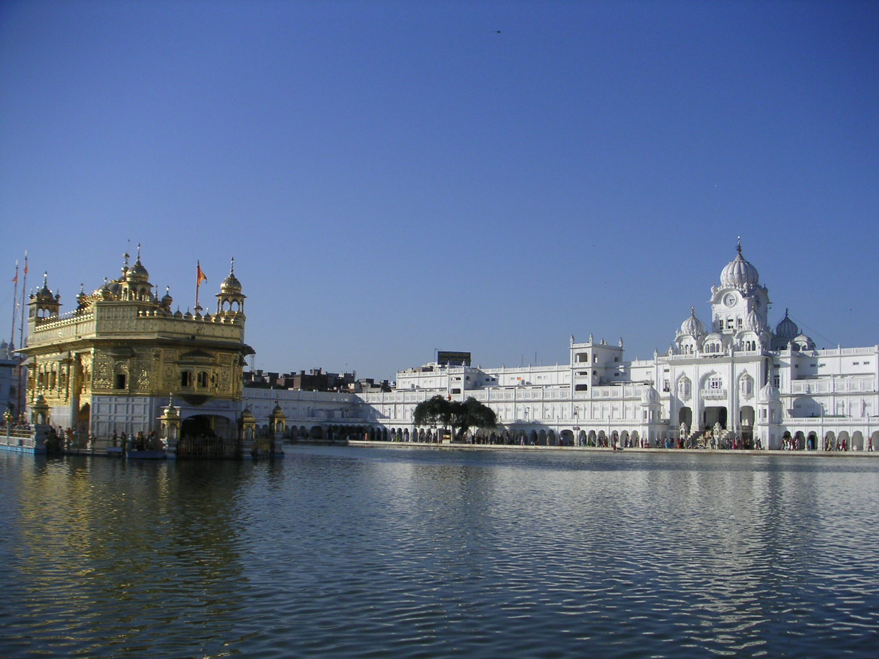 Golden Temple, Amristar. Photo: Soman